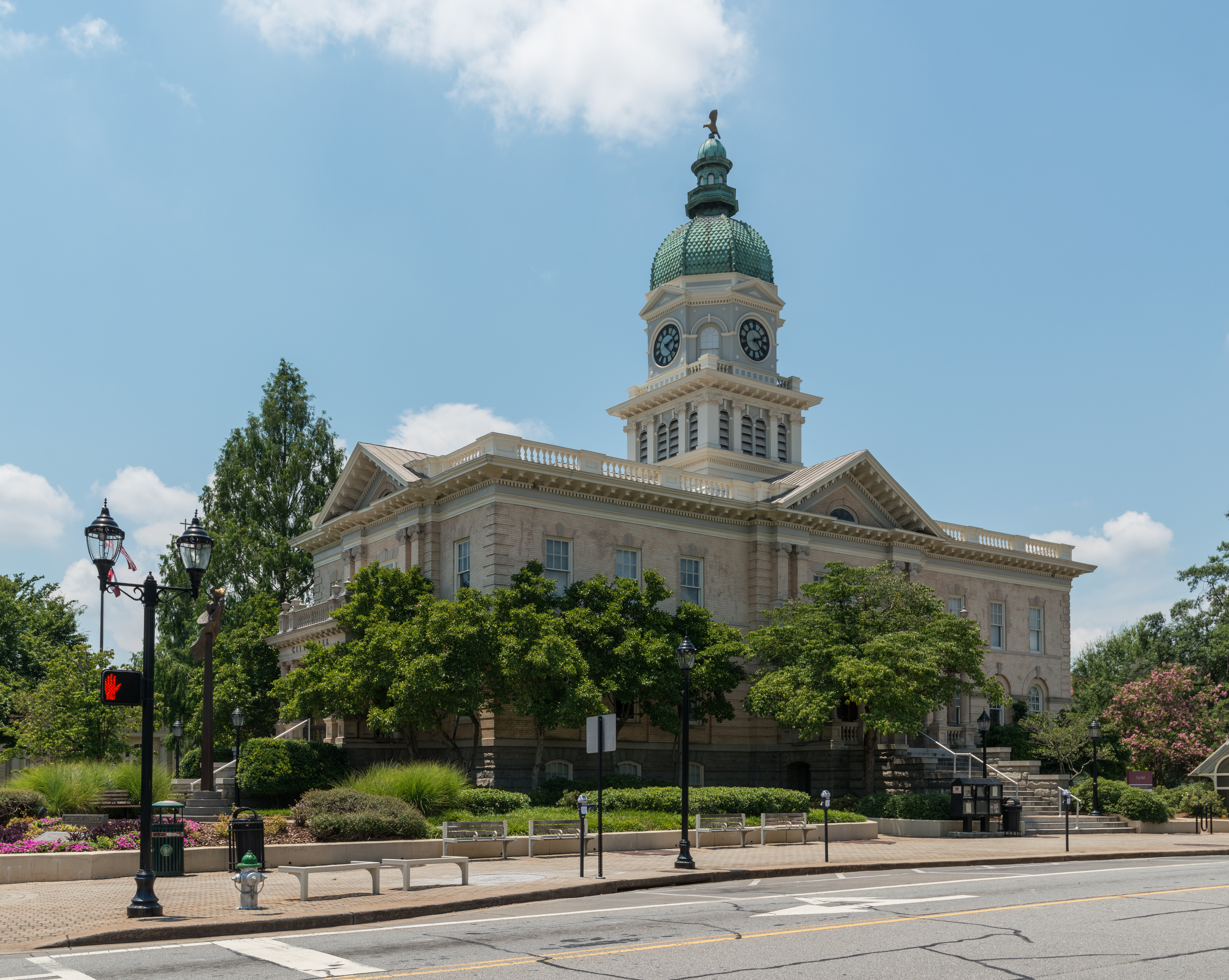 A southeast view of Athens, Georgia, City Hall